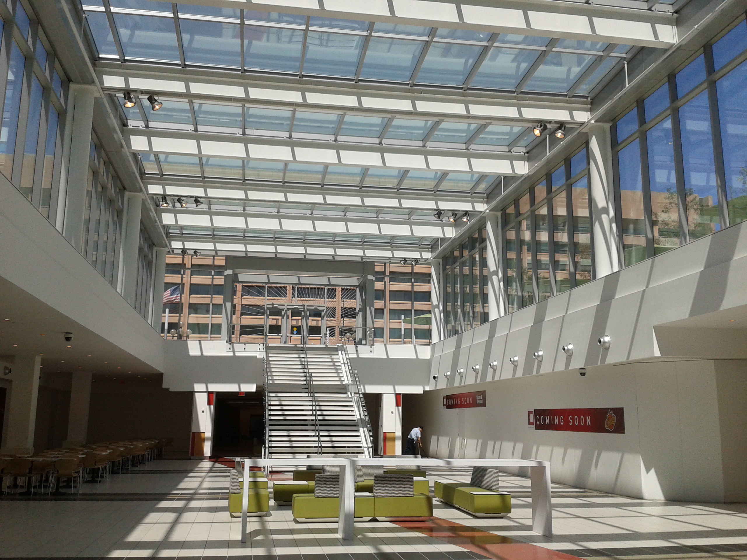 The new atrium at La Promenade shopping center, L'Enfant Plaza, Washington, DC